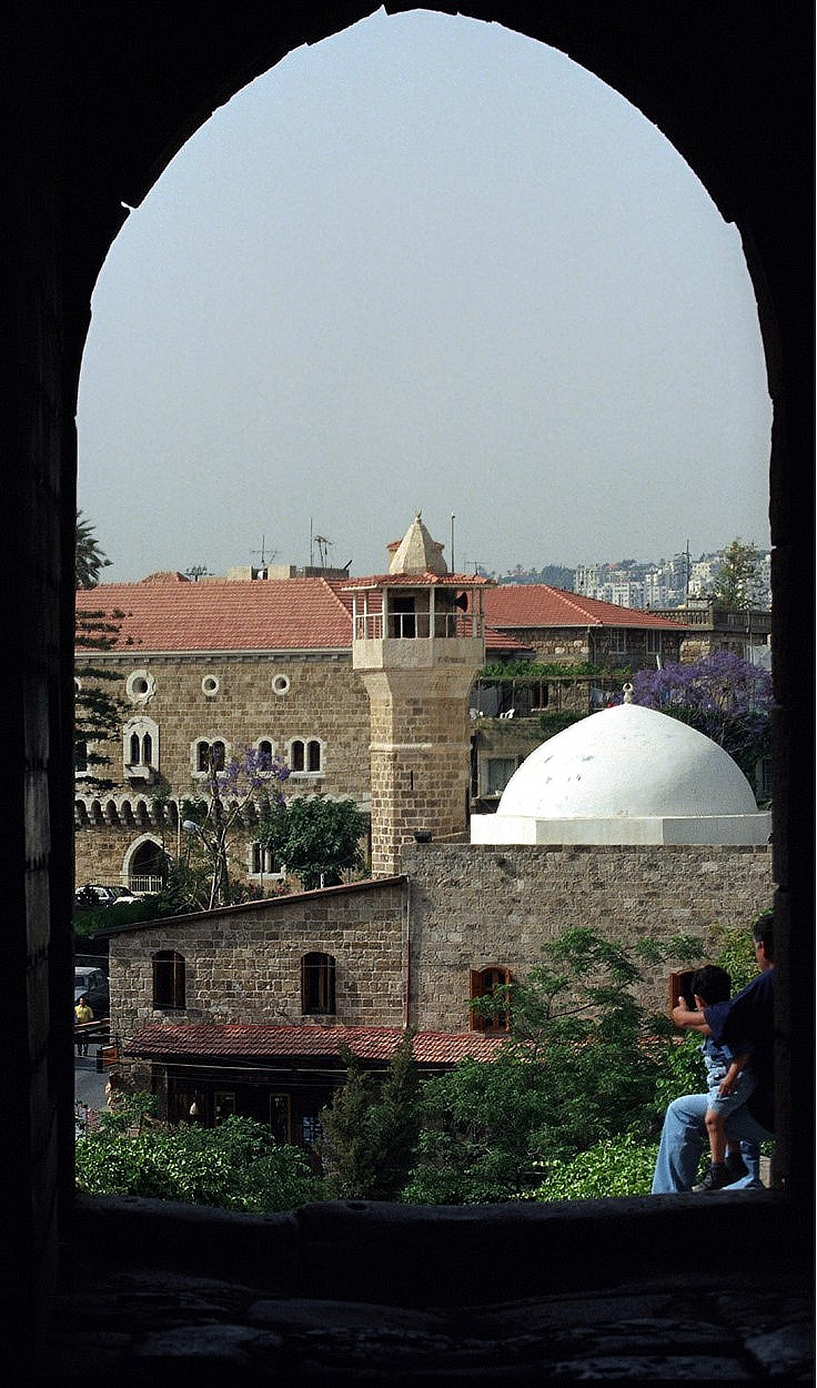 Byblos, the Mosque